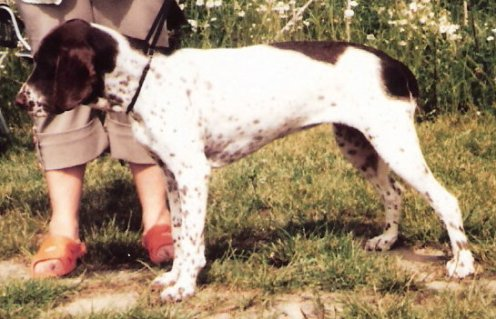 Old Danish Pointer aka Old Danish Chicken Dog.